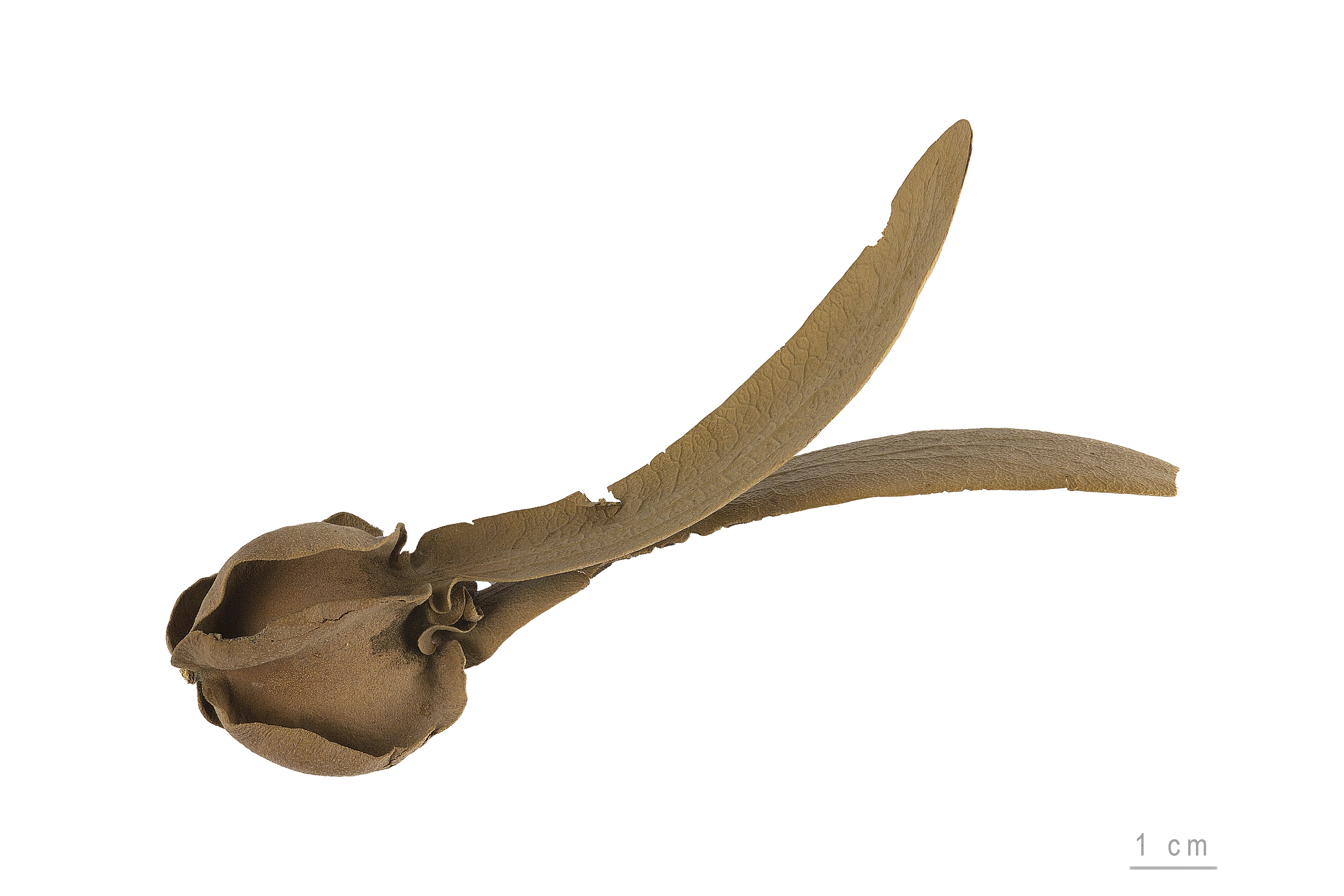 Dipterocarpus alatus , fruits and seeds